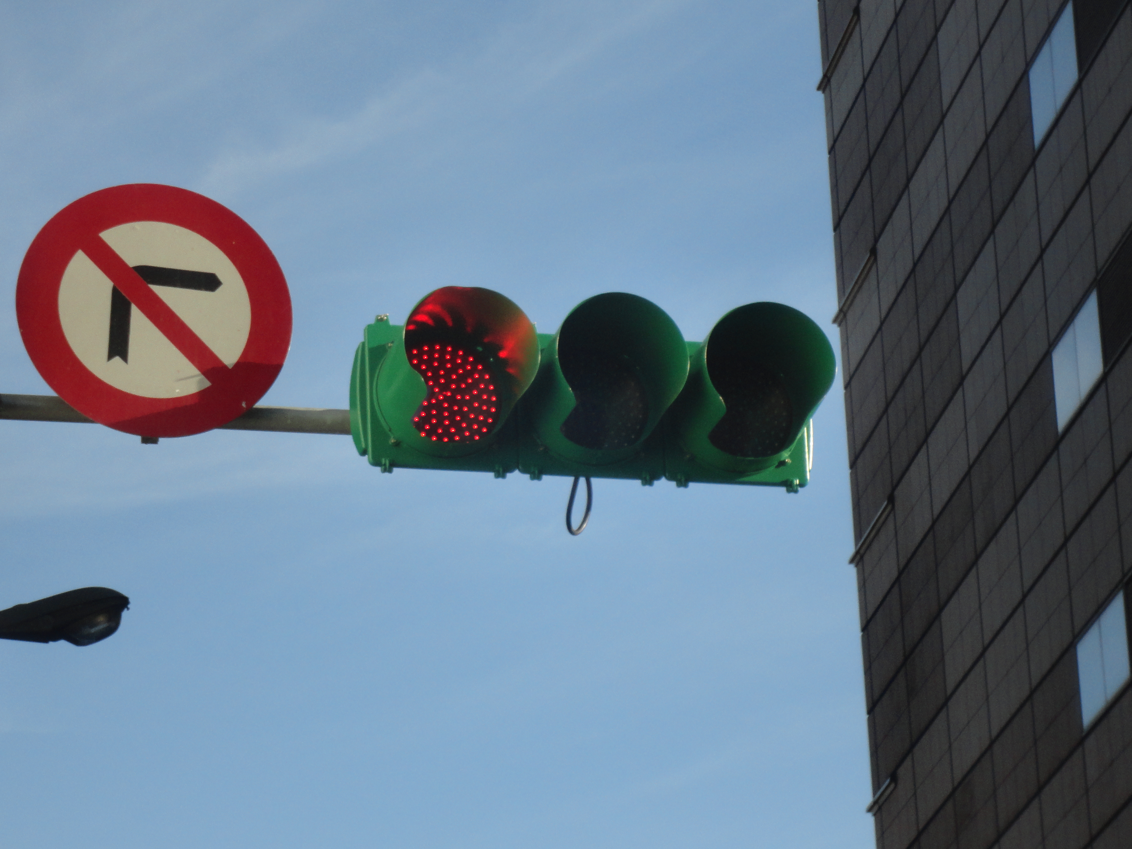 A Traffic Signal Head in Taipei City, Taiwan, photo taken on Sep 20, 2014.